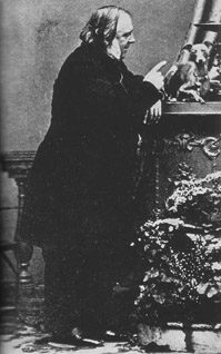 French composer Louis Clapisson (1808—1866)